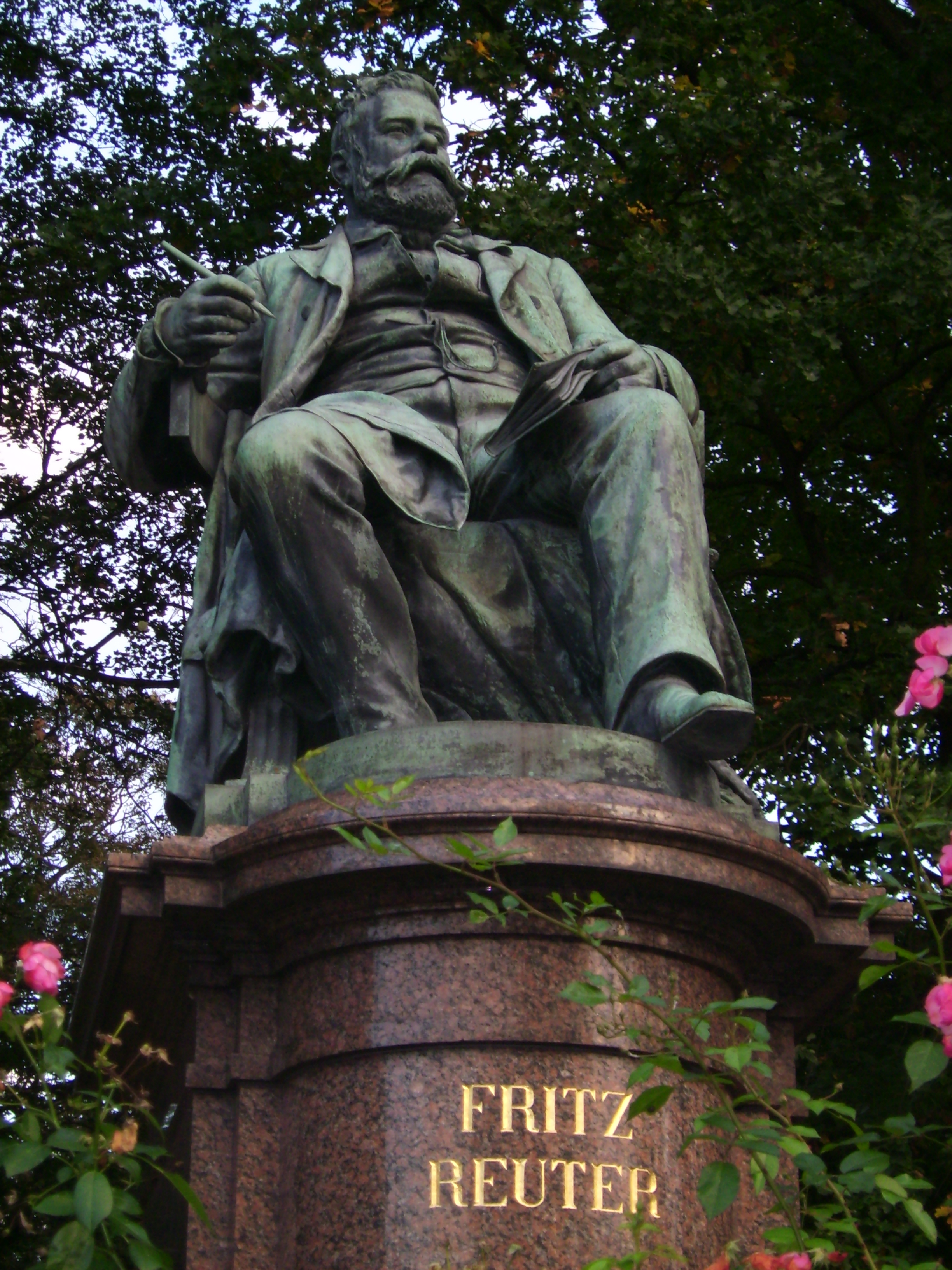 The Fritz Reuter memorial (German writer, 1810-1874) by Martin Wolff (1852-1919) in the German town Neubrandenburg, Mecklenburg-Vorpommern (Mecklenburg-Western Pomerania).